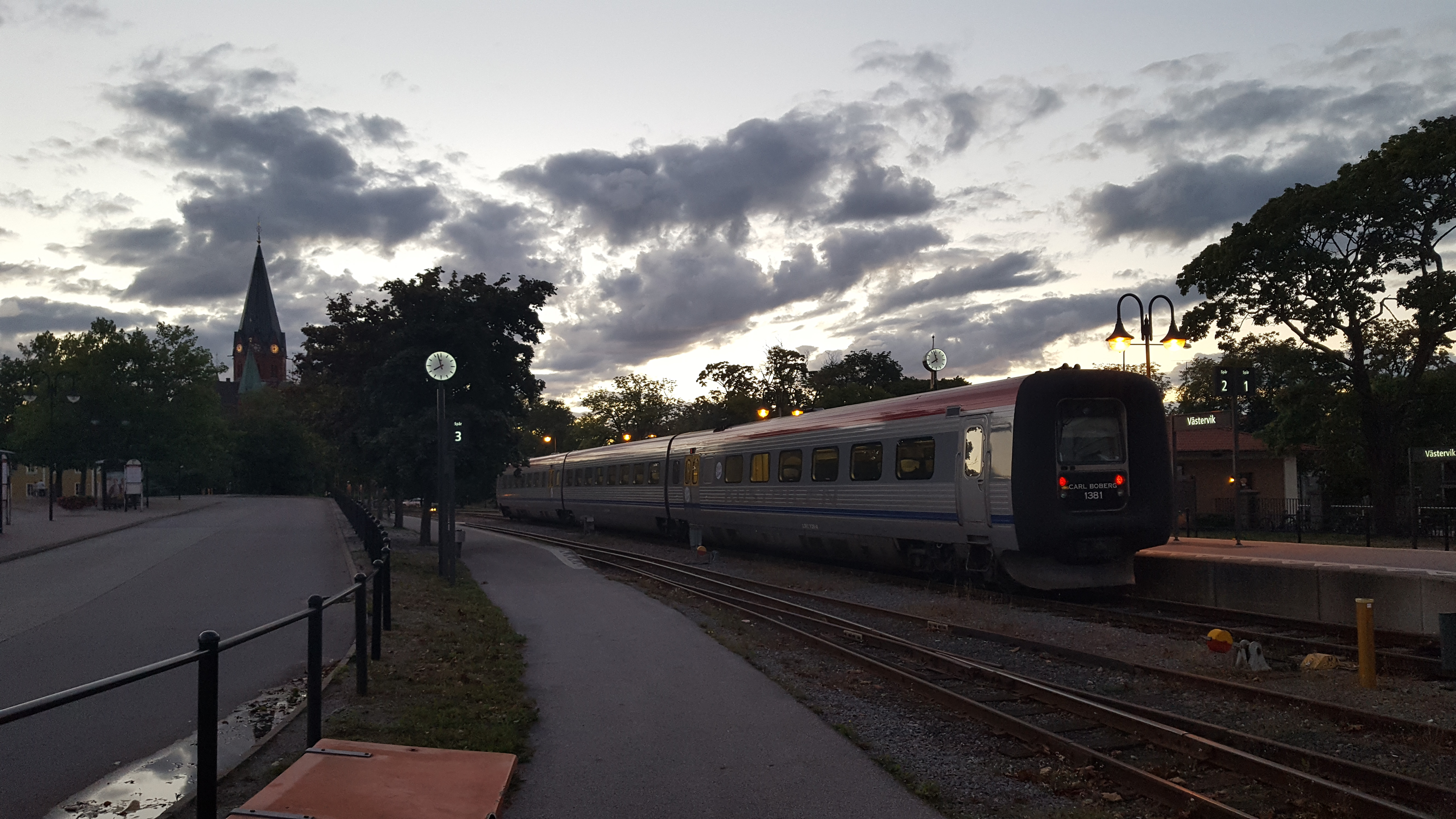 A standard-gauge passenger train Kustpilen/Y2 at the station in Västervik, Sweden. A narrow-gauge track can be seen in the foreground.